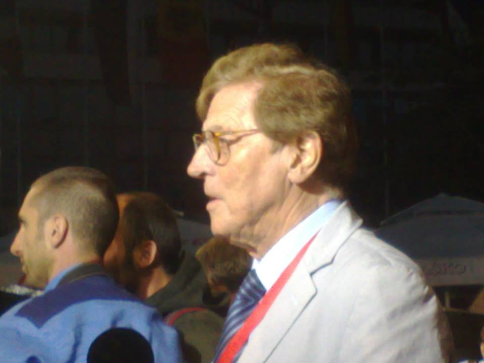 Minja Subota